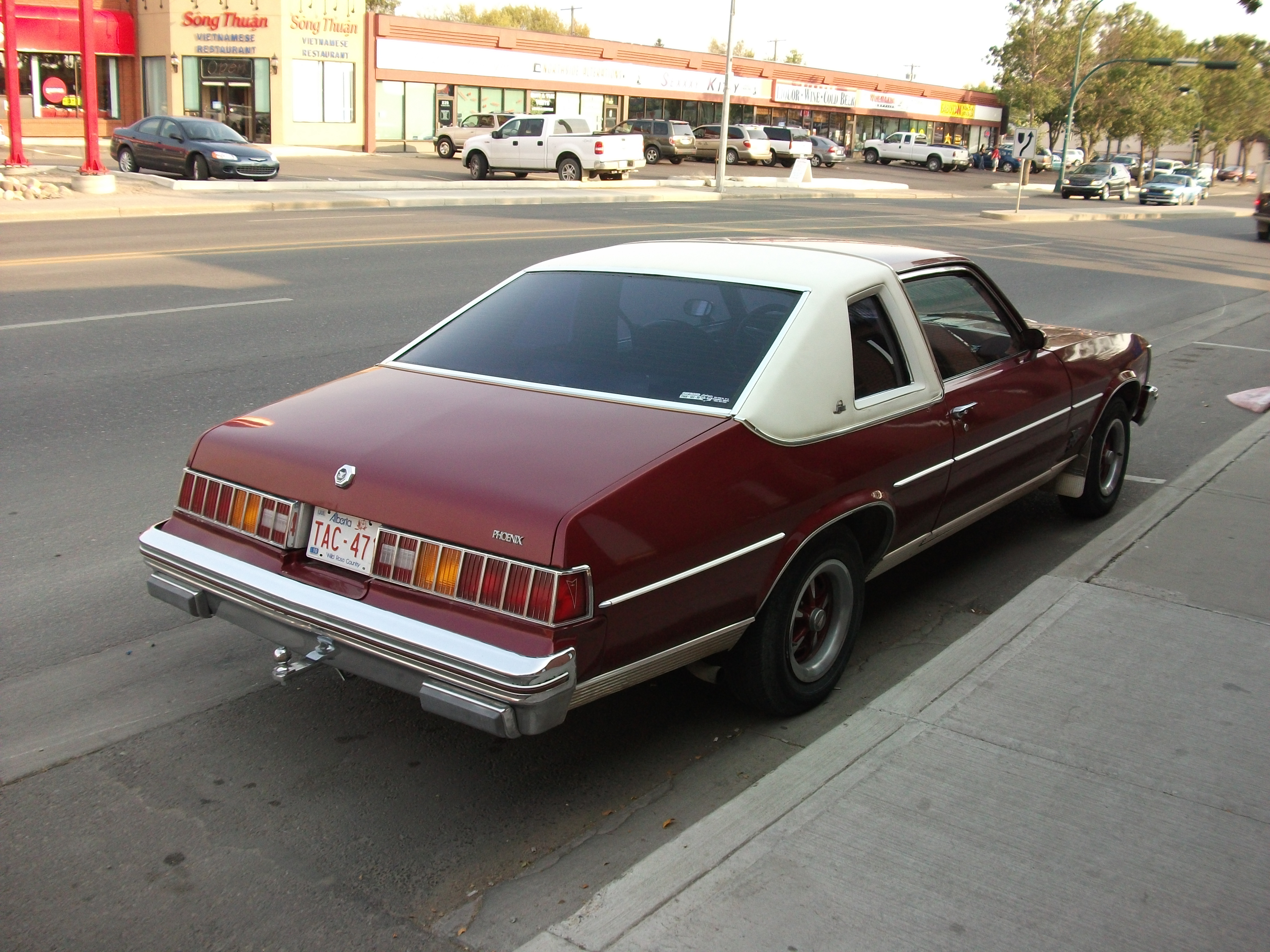 A Pontiac Phoenix SJ in nice shape. Clone on the Chevrolet Nova.